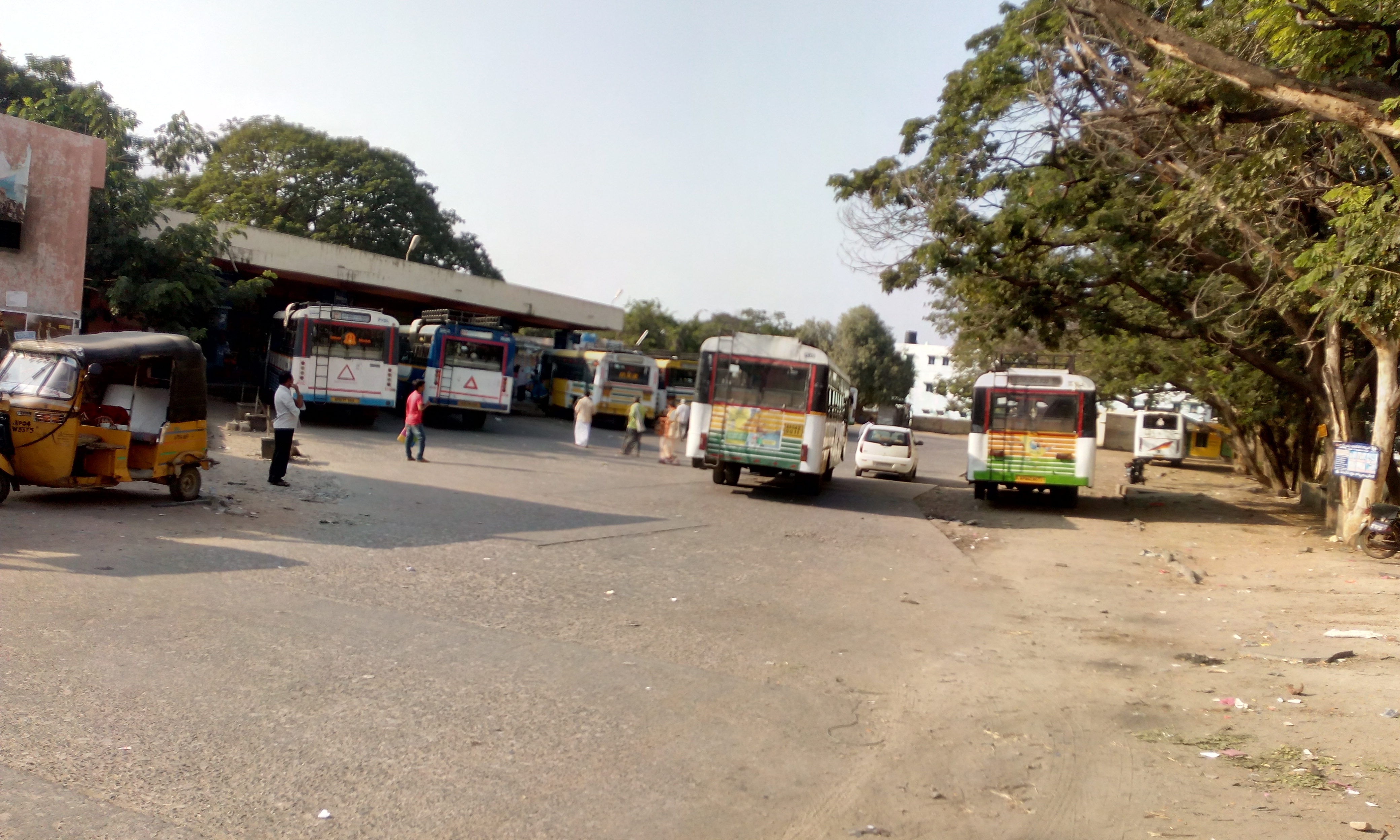 Pulivendula Bus Stand